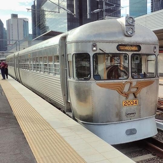 RM2034 at Roma Street Station Platform 3 about to operate the annual 'Silver Bullet' tour to Toowoomba